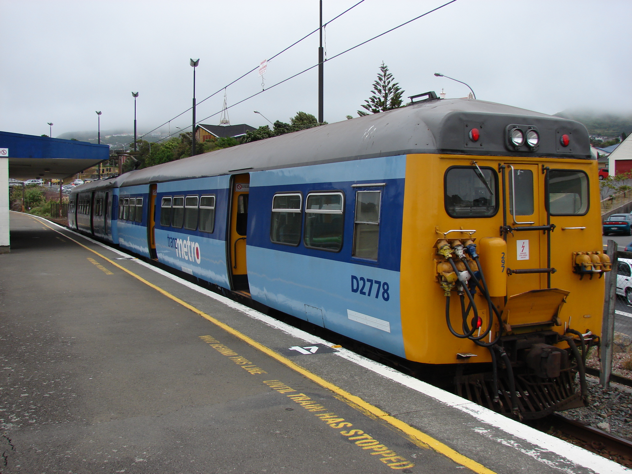 An NZR DM class EMU waiting for departure at Johnsonville railway station on the Johnsonville Branch.